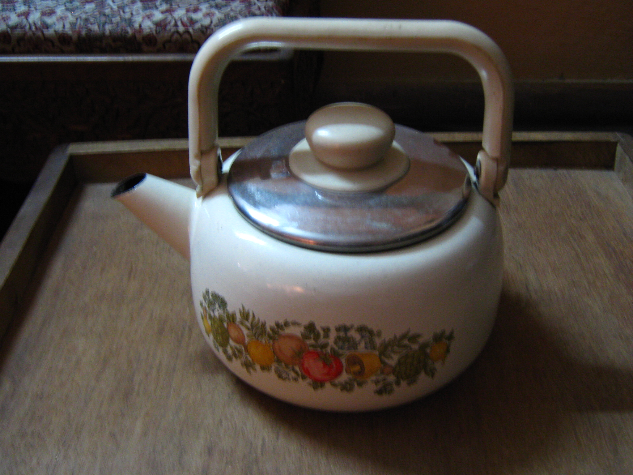 utensils used in Indian kitchen.